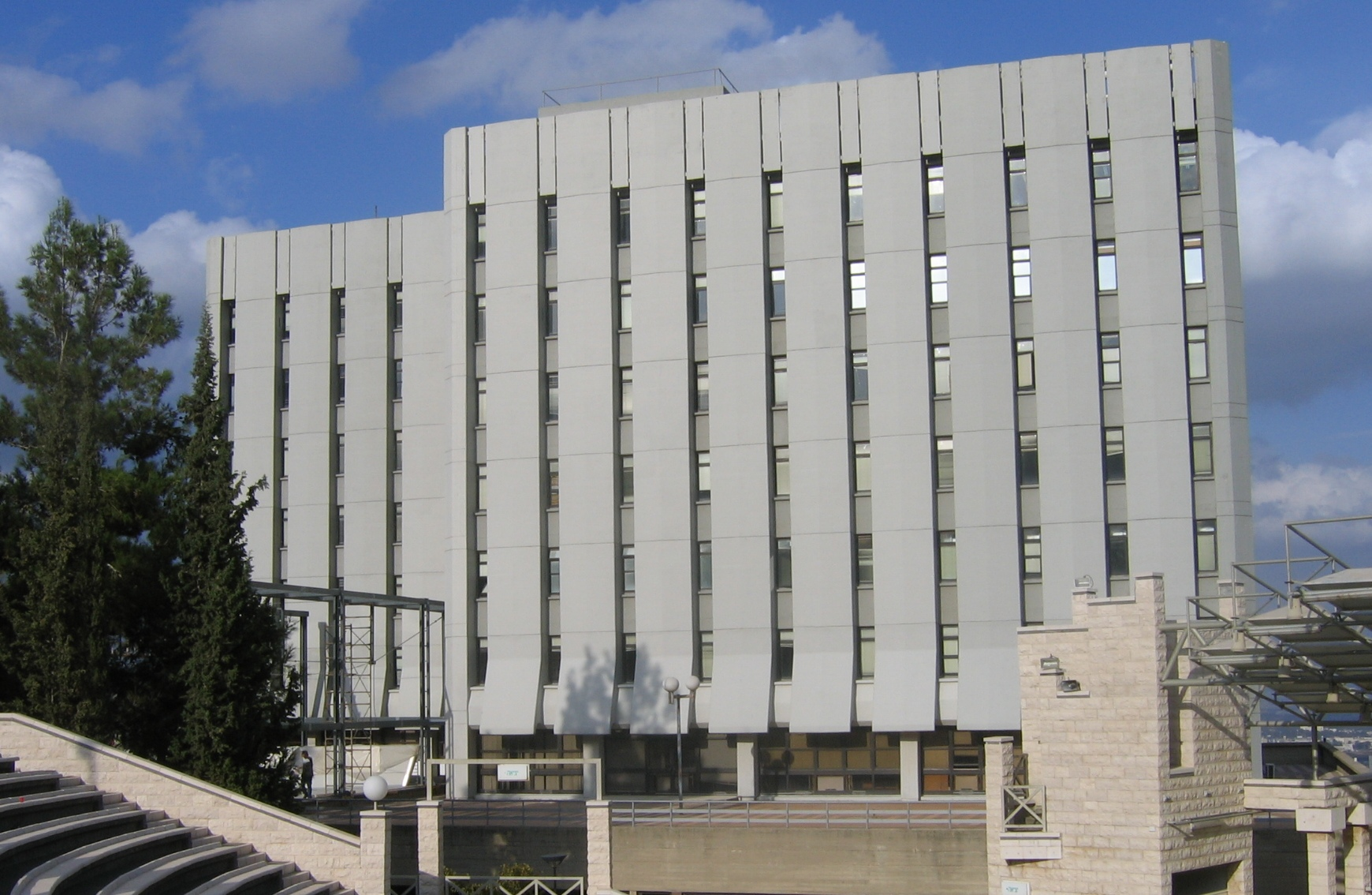 Facade of the building of Faculty of Mathematics, named after Amado, in the Technion, Haifa, Israel.